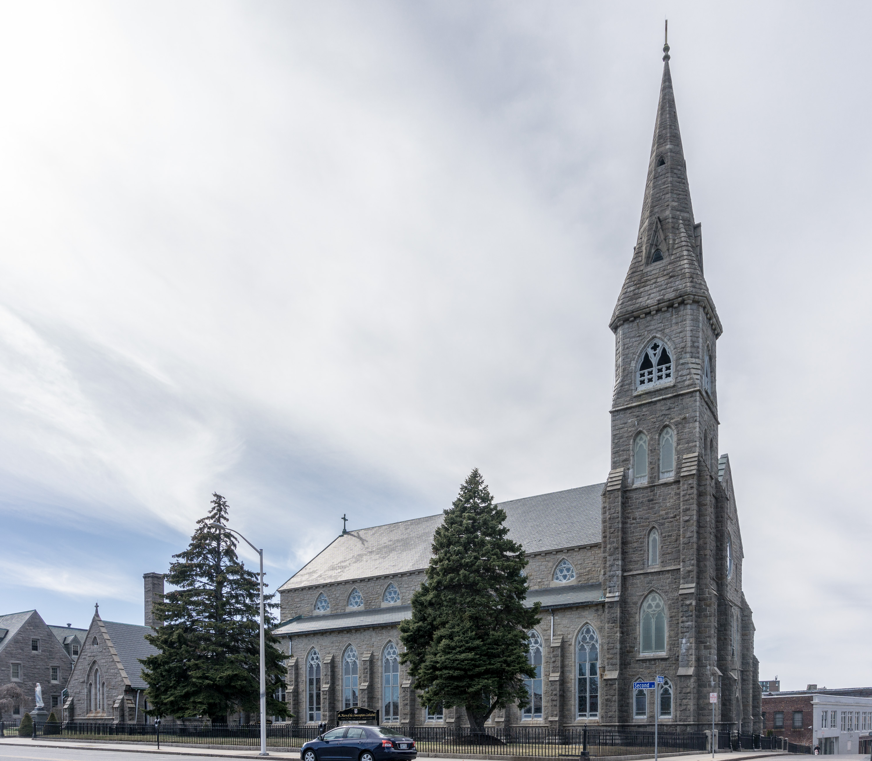 Saint Mary's Cathedral, Fall River, Massachusetts.